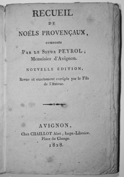 Title page of Antoine Peyrol, Noels... (Avignon : 1823)